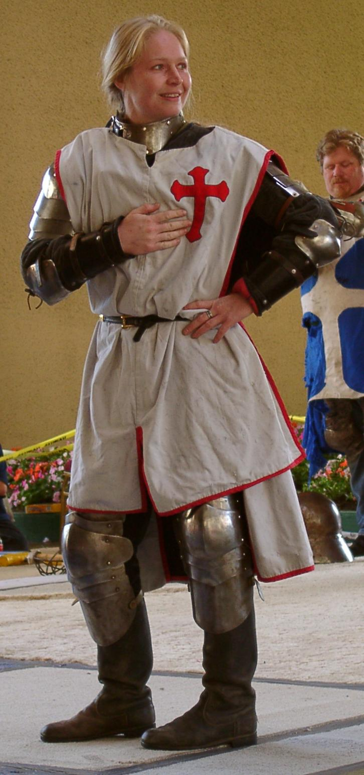 Girl wearing a tabard over armour at BayCon